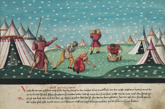 Exodus 16:14-16: “And when the dew had gone up, there was on the face of the wilderness a fine, flake-like thing, fine as frost on the ground. When the people of Israel saw it, they said to one another, “What is it?” For they did not know what it was. And Moses said to them, “It is the bread that the Lord has given you to eat. This is what the Lord has commanded: ‘Gather of it, each one of you, as much as he can eat. You shall each take an omer, ...” -- The Book of Miracles (f°6), ca 1552